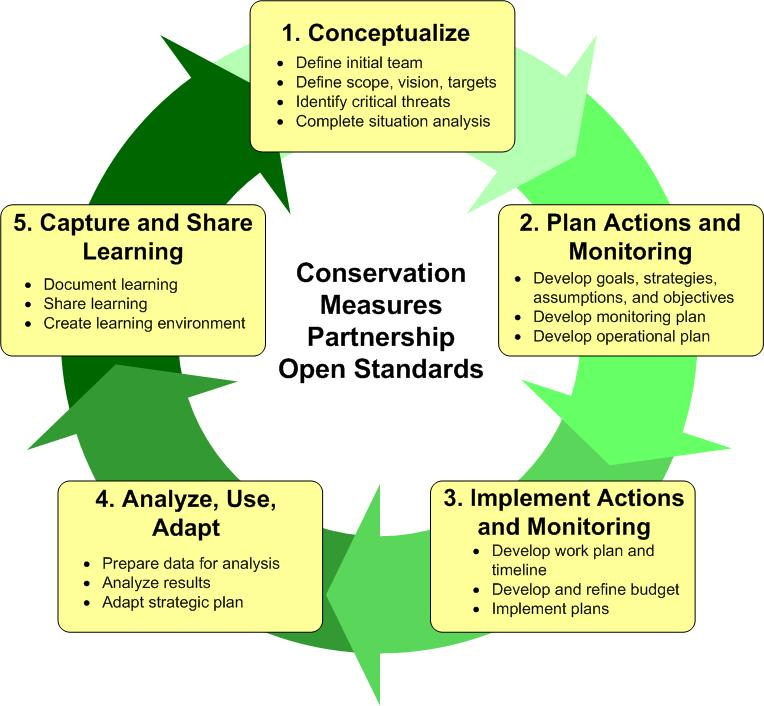 This image comes from the Open Standards for the Practice of Conservation. The Conservation Measures Partnership developed this set of adaptive management Open Standards to bring together common concepts, approaches, and terminology in conservation project design, management, and monitoring in order to help practitioners improve the practice of conservation. In particular, these standards are meant to provide the steps and general guidance necessary for the successful implementation of conservation projects.